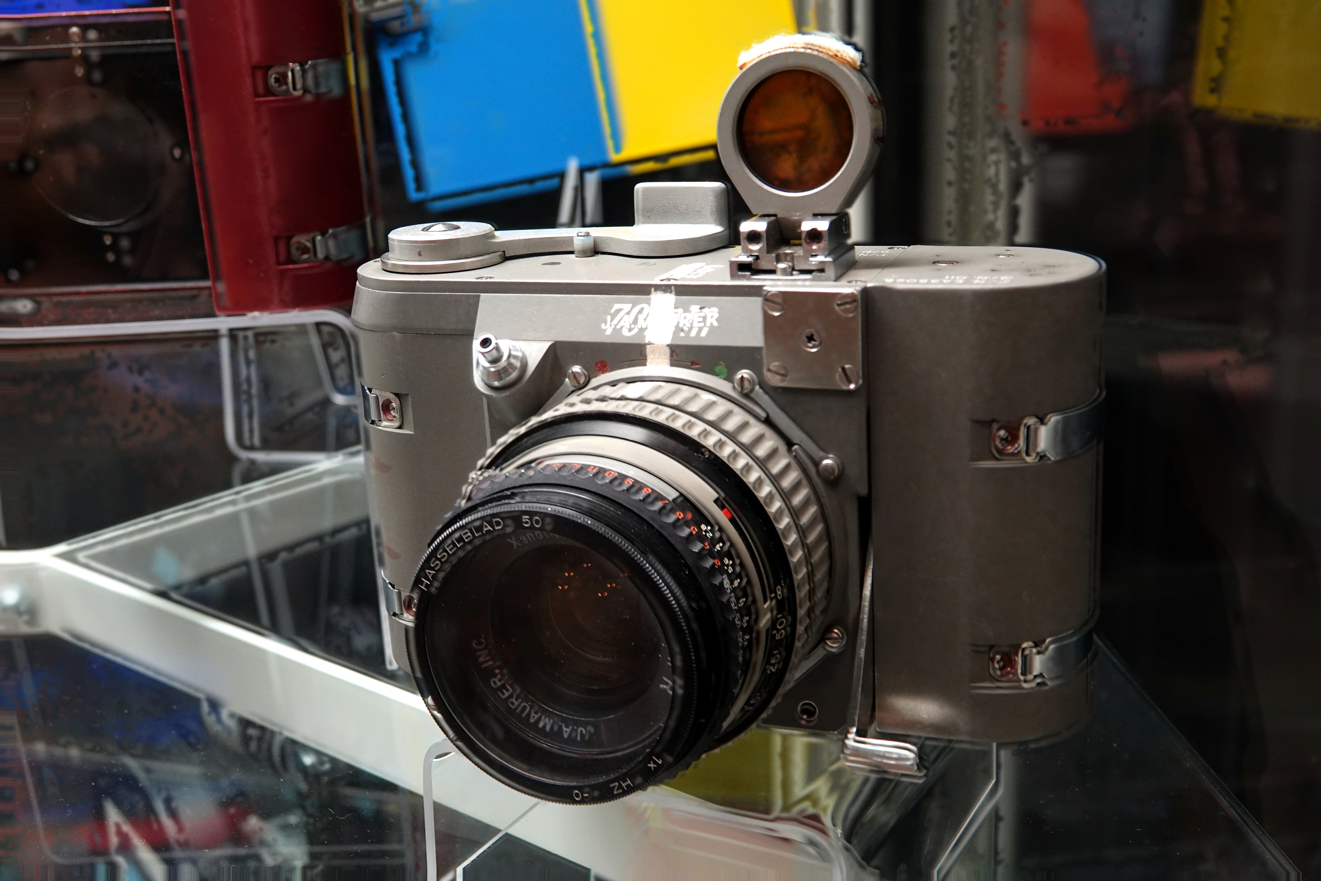 On later Gemini missions, astronauts brought several cameras and accessories into space for documentation and scientific photography. The equipment displayed here was available to astronaut photographers on the last four Gemini missions. This camera ﬂew on all four of those missions. Lenses of different focal lengths, special filters, and extra ﬁlm magazines increased the types and amount of photographic work astronauts could do in space.On Gemini X, Michael Collins and John Young used a color patch kit, like the one displayed here, to give scientists a known set of colors to compare with those seen in space. Picture taken at the National Air and Space Museum's Steven F. Udvar-Hazy Center in Chantilly, Virginia, USA. -- Transferred from NASA